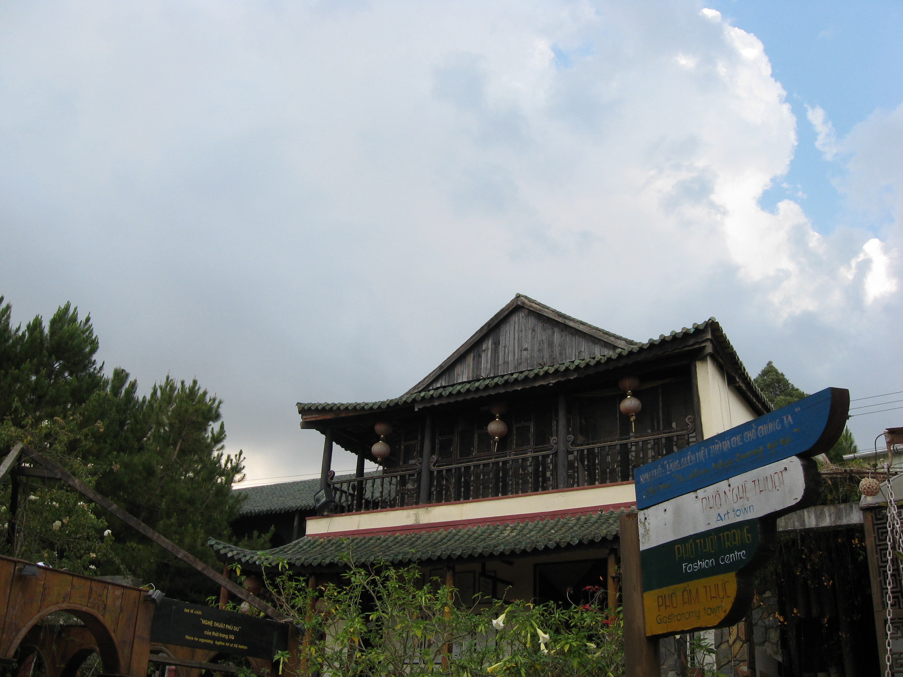 XQ Dalat Historical Village